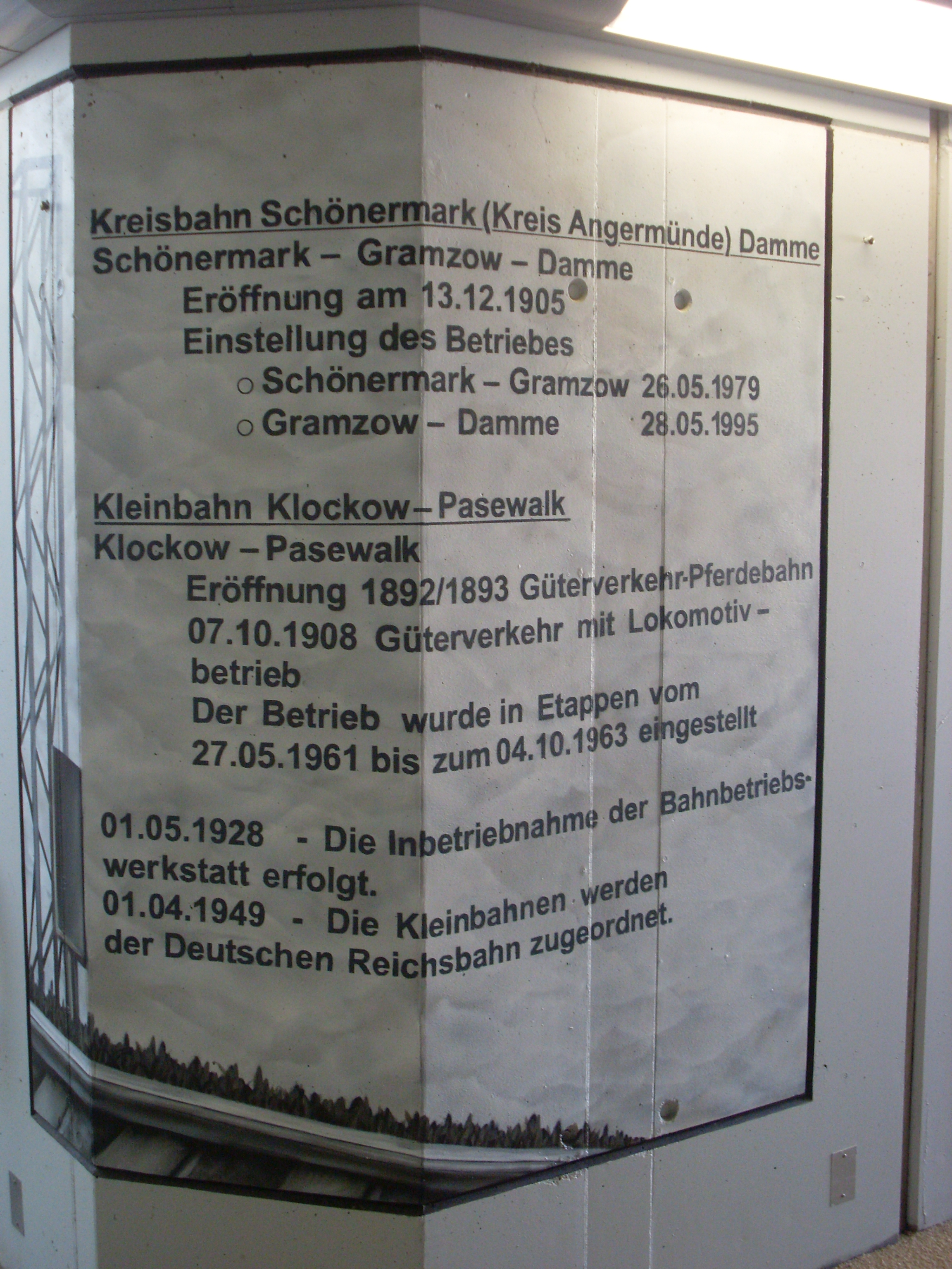 Station tunnel Prenzlau with informations about the "small railways".